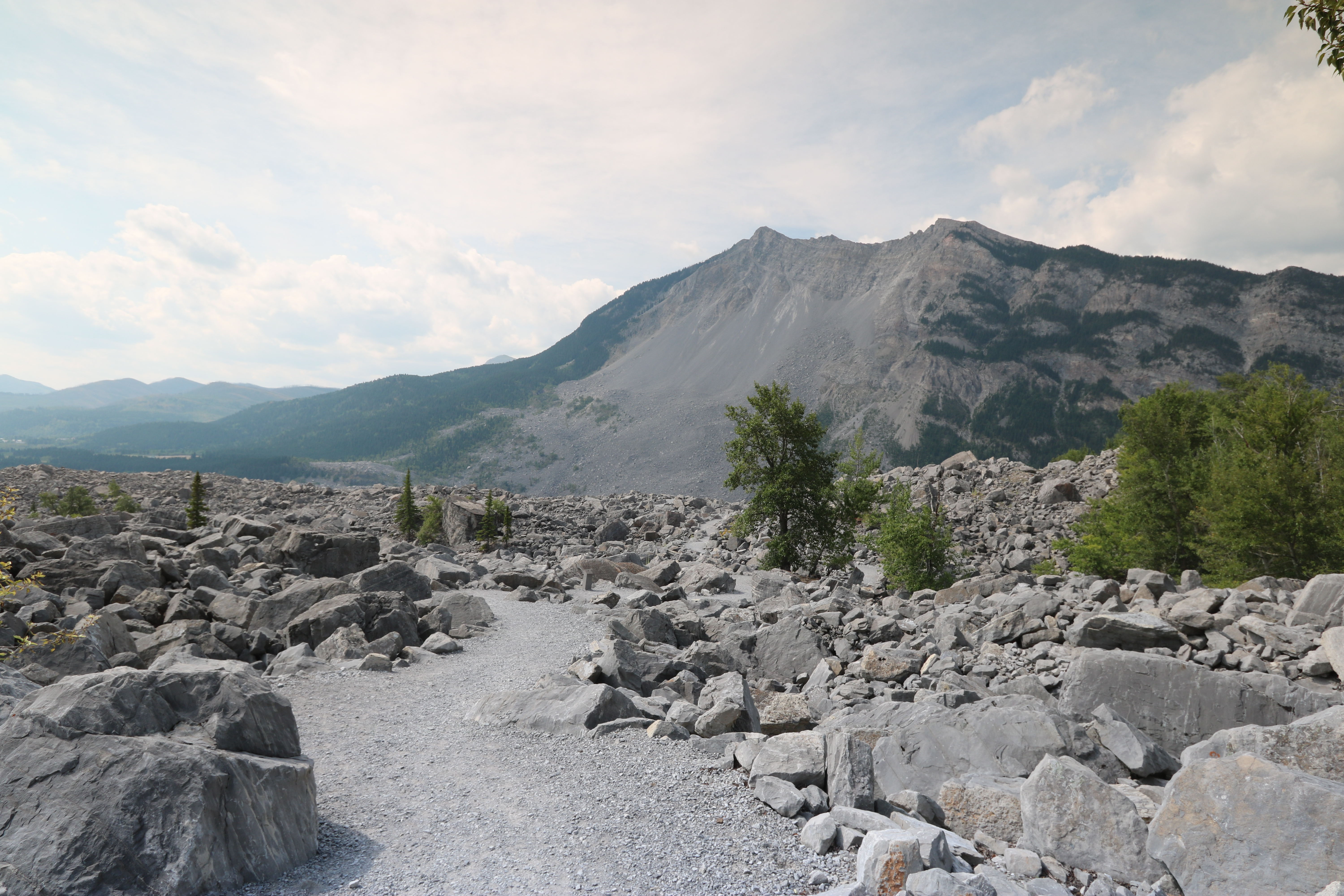 In april 1904 half the side of this mountain collapsed crushing a good part of the town called Frank, burring everything under some 90 million tons of rock where it remains to this day, the whole collapse lasted only 90 seconds, the native peoples of this area called it the mountain that moves and they were right